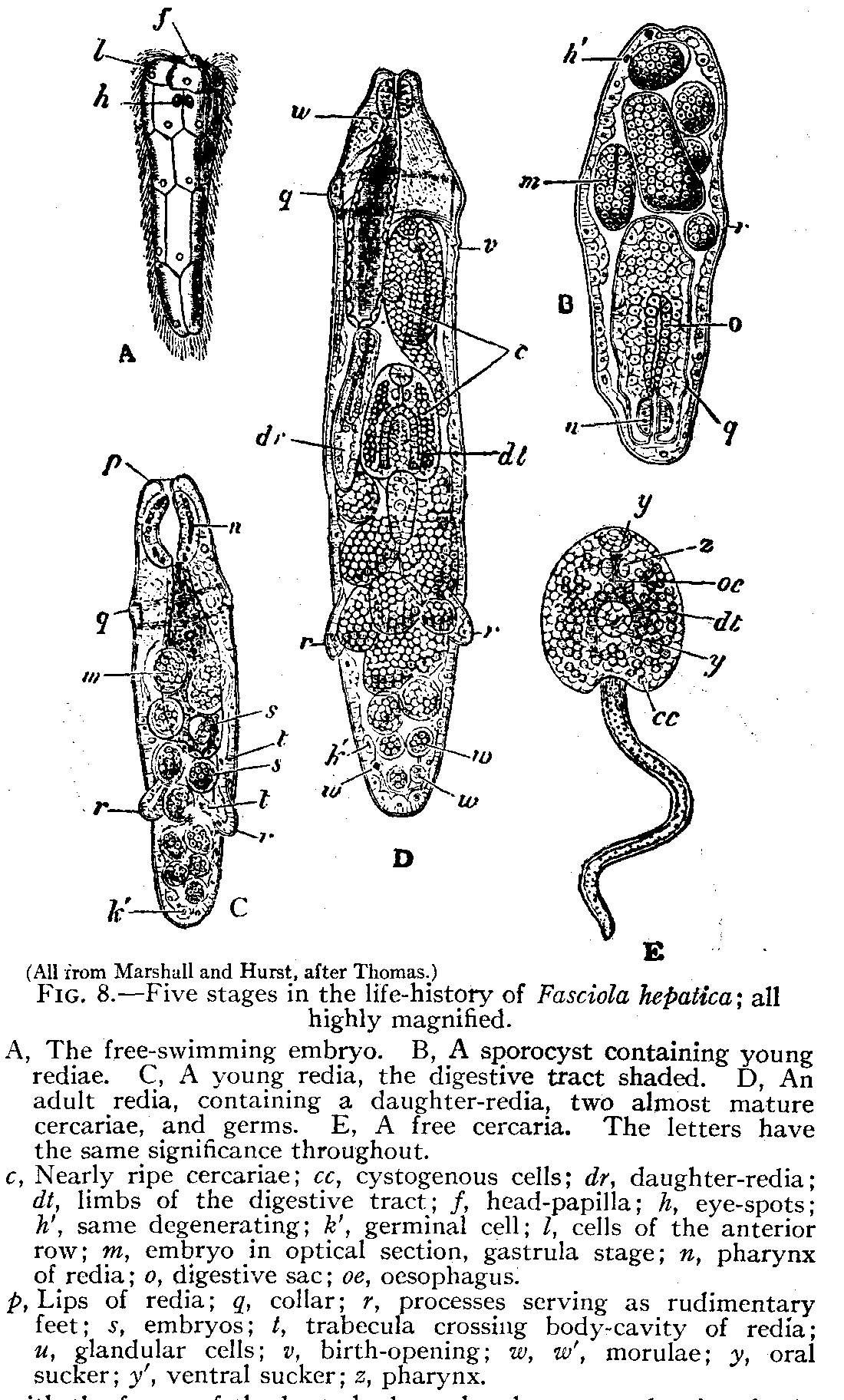 Scientific figures showing life-history stages of the trematode flatworm Fasciola hepatica. Shows sporocyst, redia, and cercaria